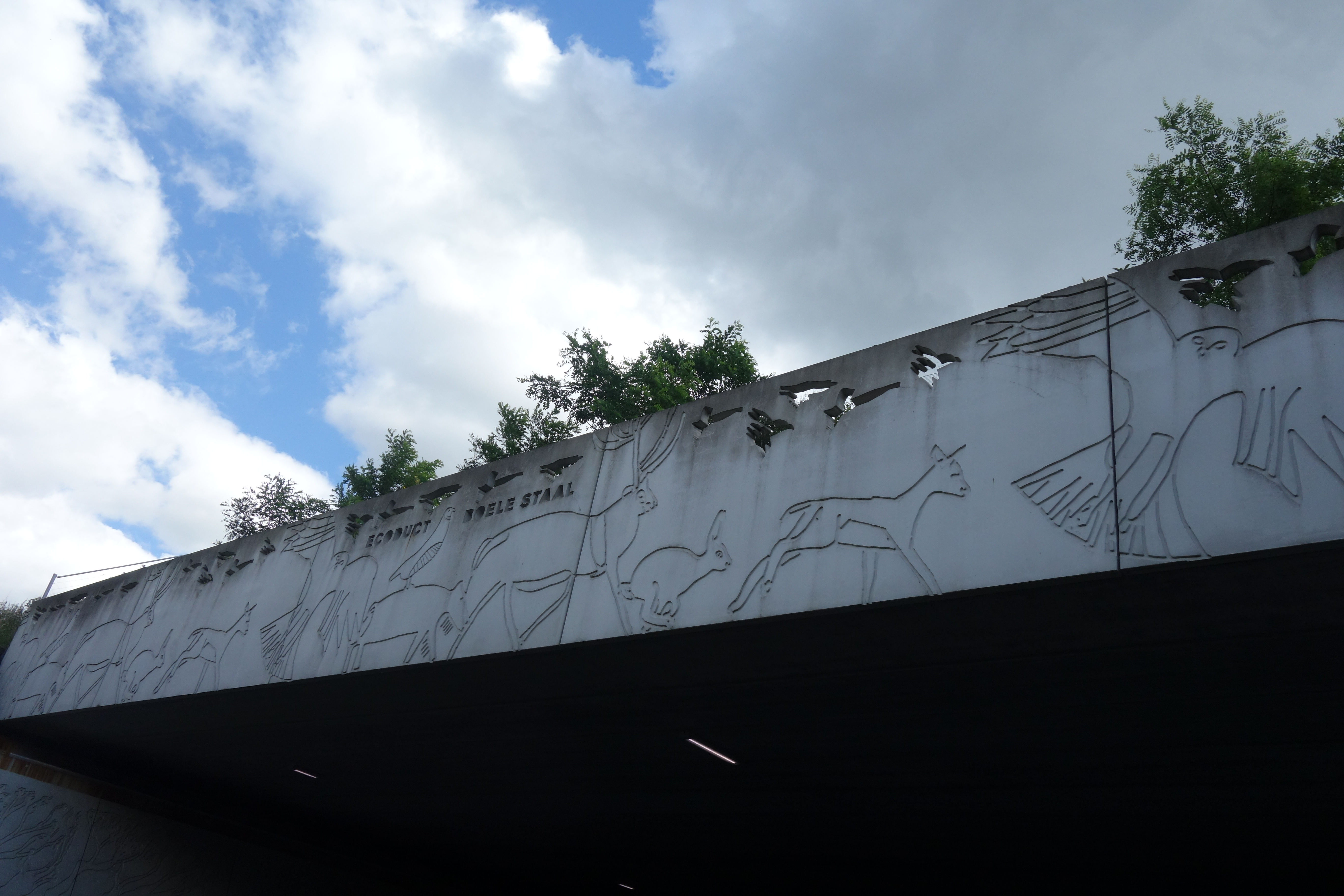 Ecoduct Boele Staal, crossing the N237 near Soesterberg, 2020